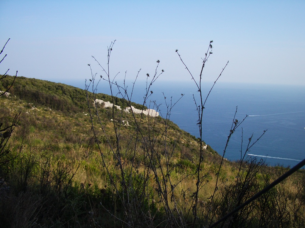 Mura ciclopiche Circeo